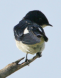 Image taken at Makasutu, The Gambia. Rear view of a perched bird showing the large white wing panels.